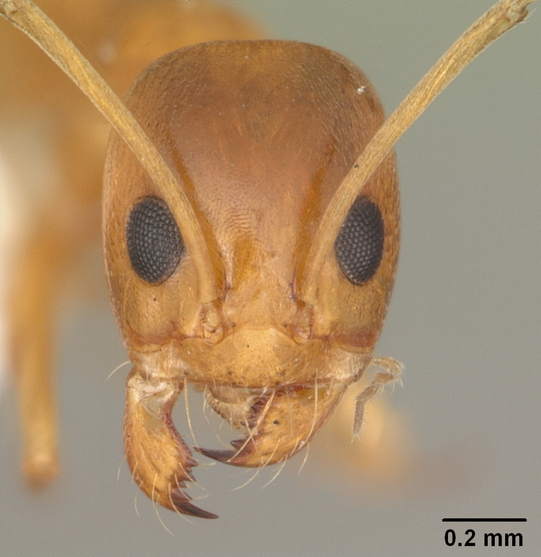 Head view of ant Dorymyrmex bureni specimen casent0103863.